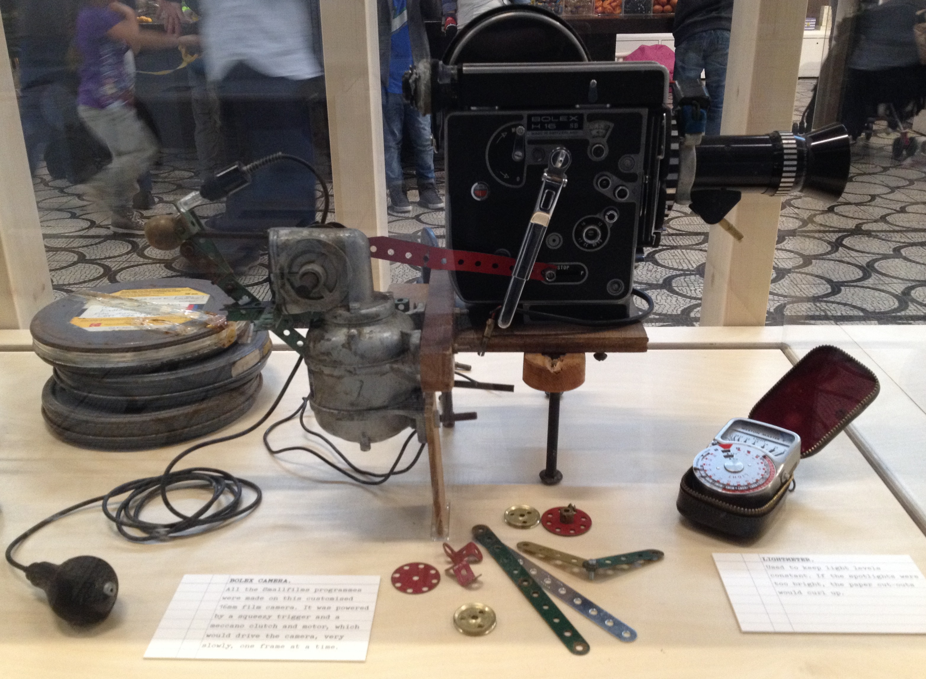 16mm Bolex Camera used for all the Smallfilms programmes, pictured at an exhibition at the V&A Museum of Childhood in 2016.